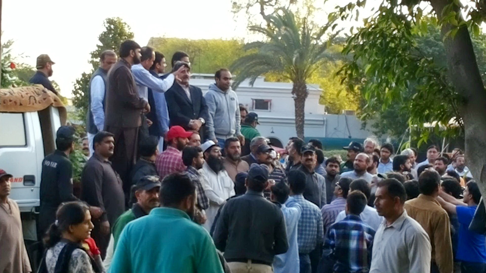 Hamaz Shahbaz, Iftikhar Ahmad and others at Flower viewing March 2014 Race course Lahore